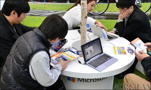 Windows 8 Device Day at Times Square, Seoul on November 9, 2012